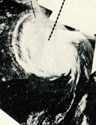 This TIROS 3 weather satellite picture of Hurricane Debbie.